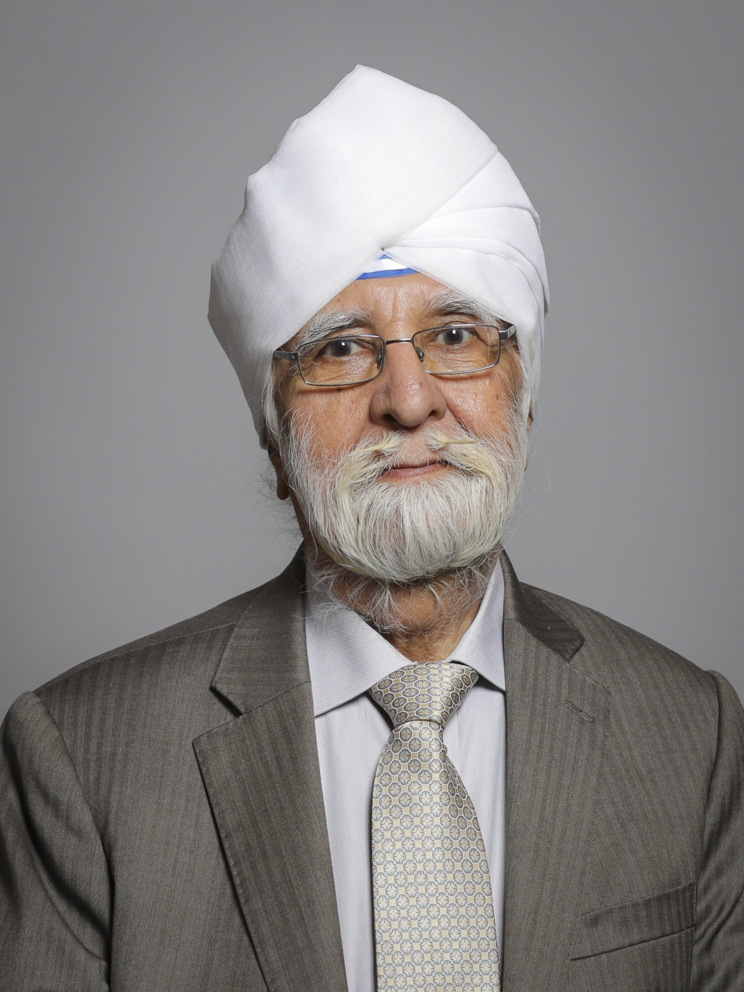 Official portrait of Lord Suri 3×4 portrait of Lord Suri